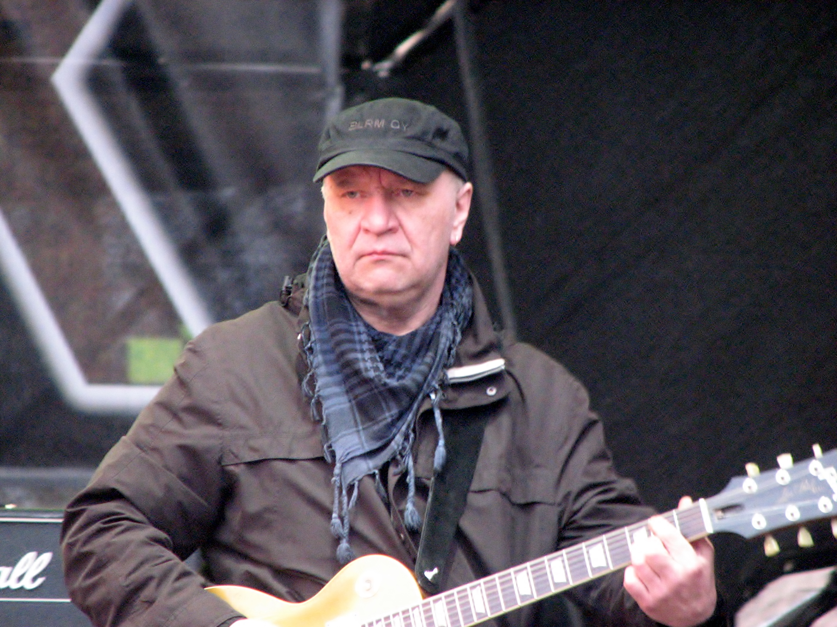 Kalle Vilpuu performing during a concert